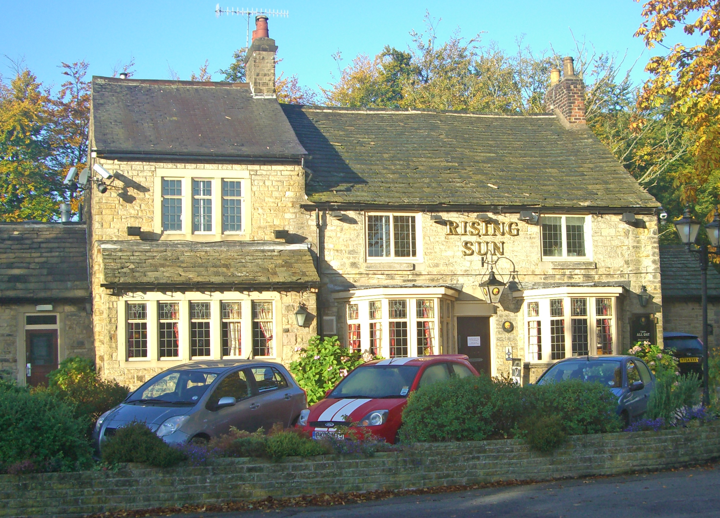 The Rising Sun public house on Abbey Lane, Whirlow, Sheffield, England